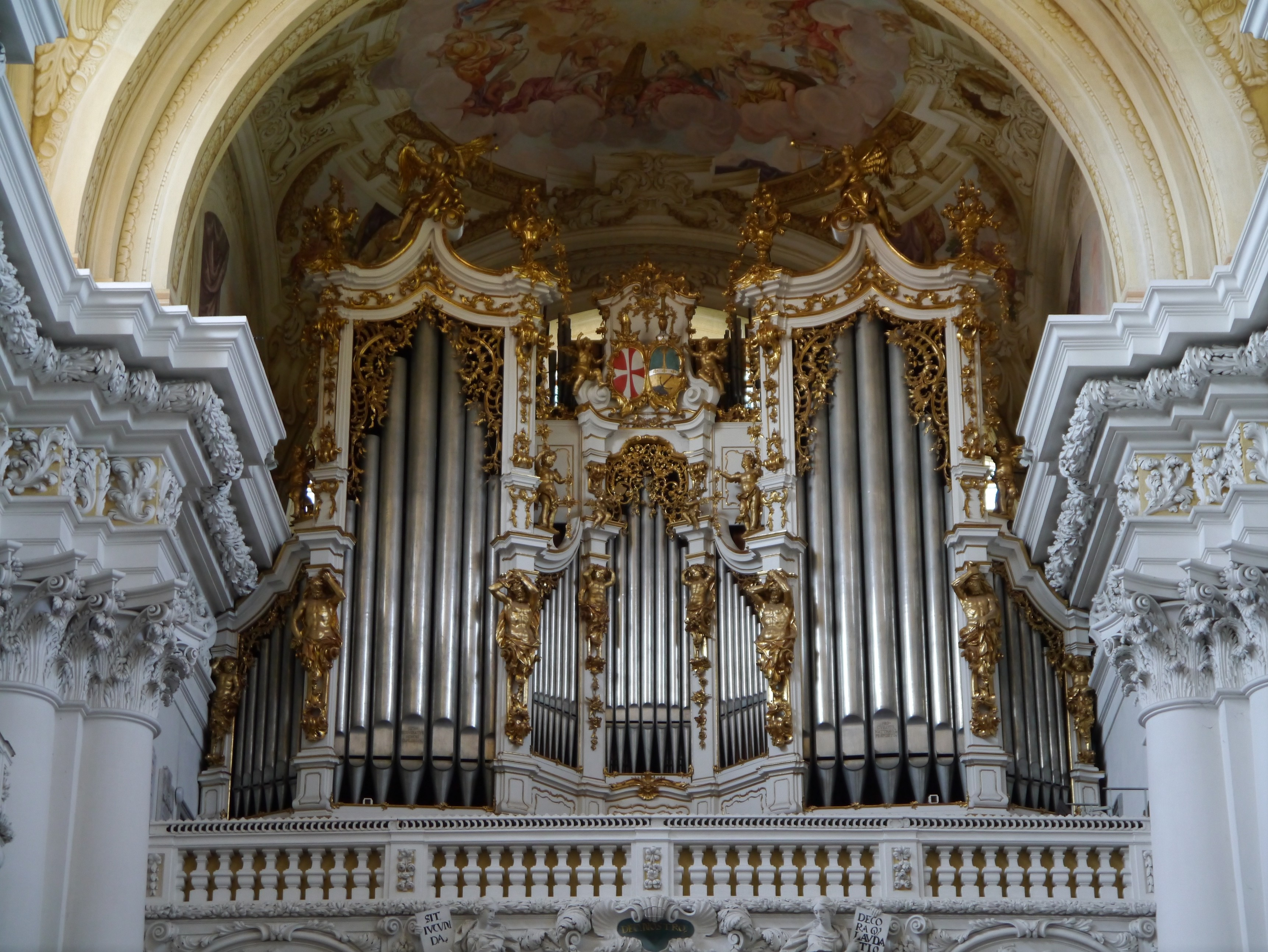 Organ of St. Florian Abbey Church, Sankt Florian, Upper Austria